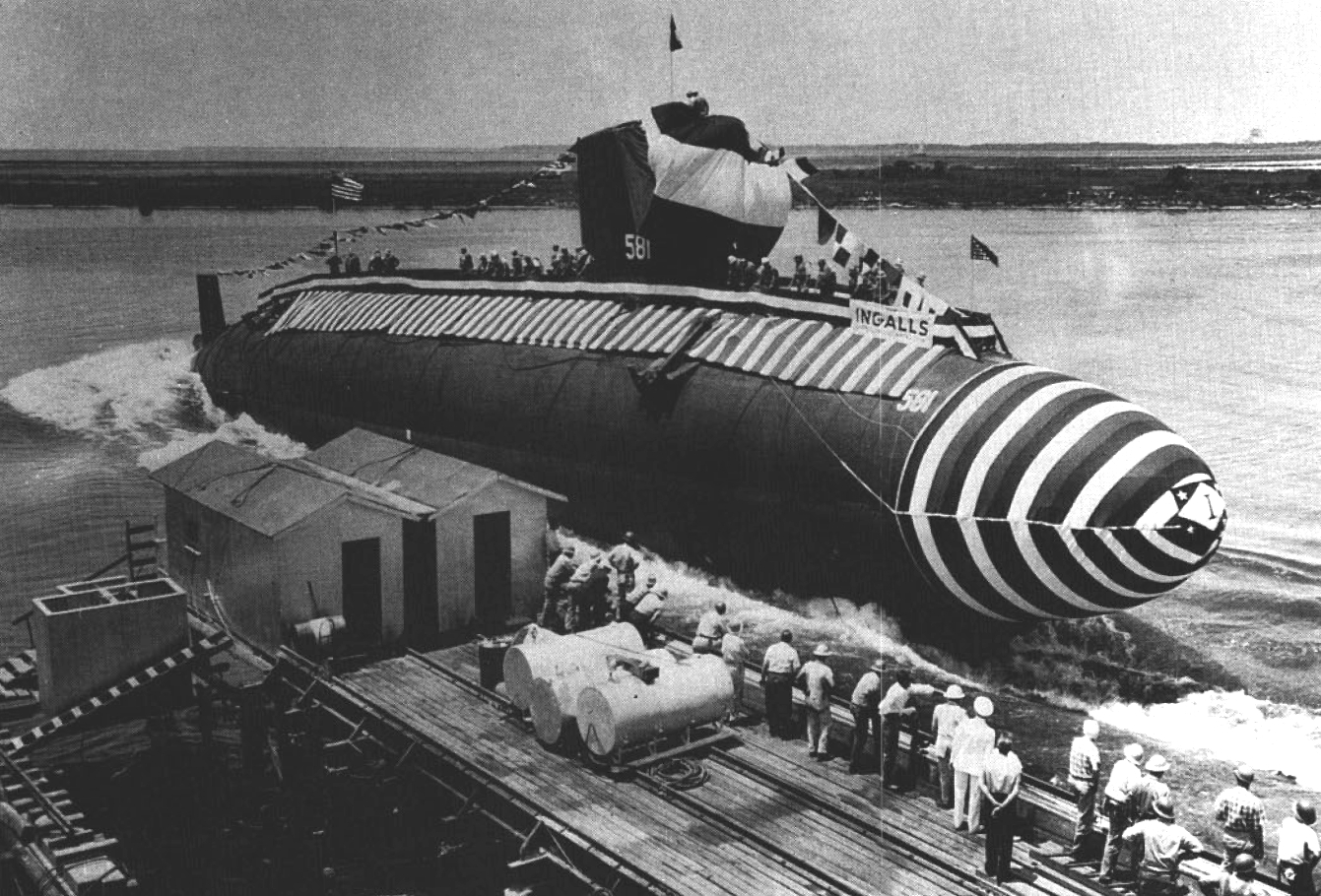 Launch of the U.S. Navy submarine USS Blueback (SS-581) at Ingalls Shipbuilding, Pascagoula, Mississippi (USA), on 16 May 1959.